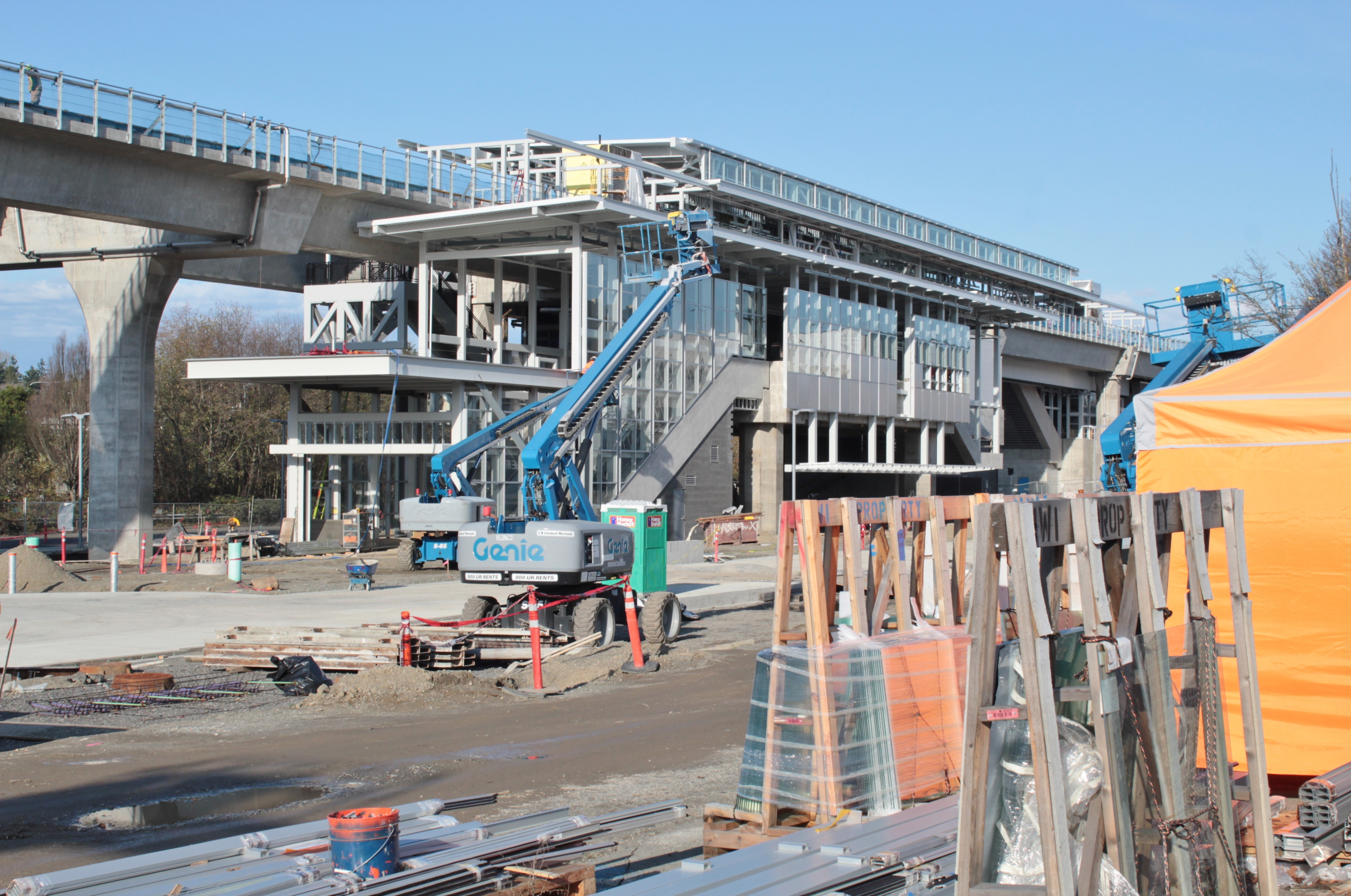 The south entrance of Northgate Station, a future light rail station in Seattle, Washington.